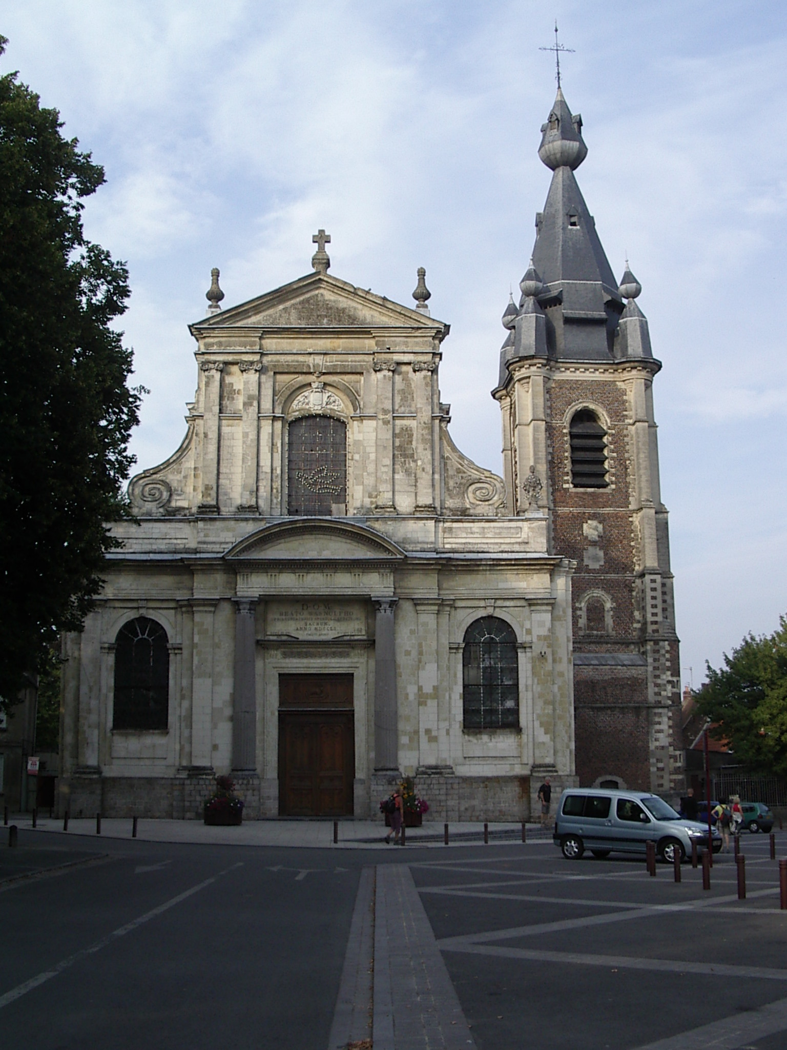 The Saint-Wasnon Parish Church, built in 1751 to the designs of Pierre Contant d'Ivry, with the bell tower dating from 1607